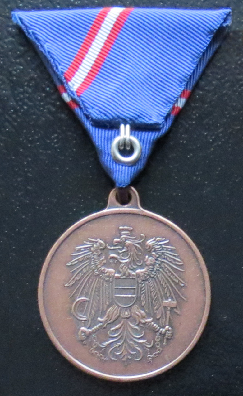 Military Service Medal in Bronze (Austria) – reverse